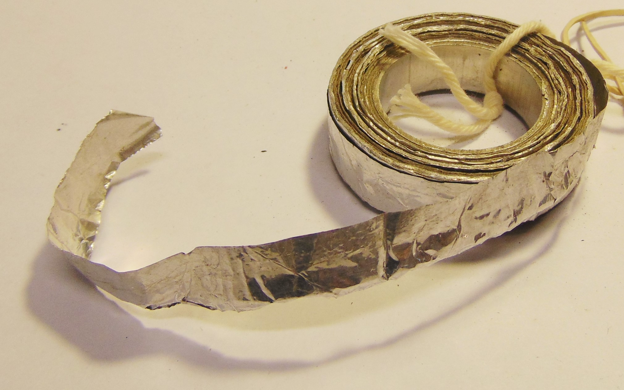 Allied Window / Chaff radar jamming stripp, found in Standaardbuiten, the Netherlands in 1944 Photographed in the collection of the National Liberation Museum 1944-1945, the Netherlands, archive number 015.049